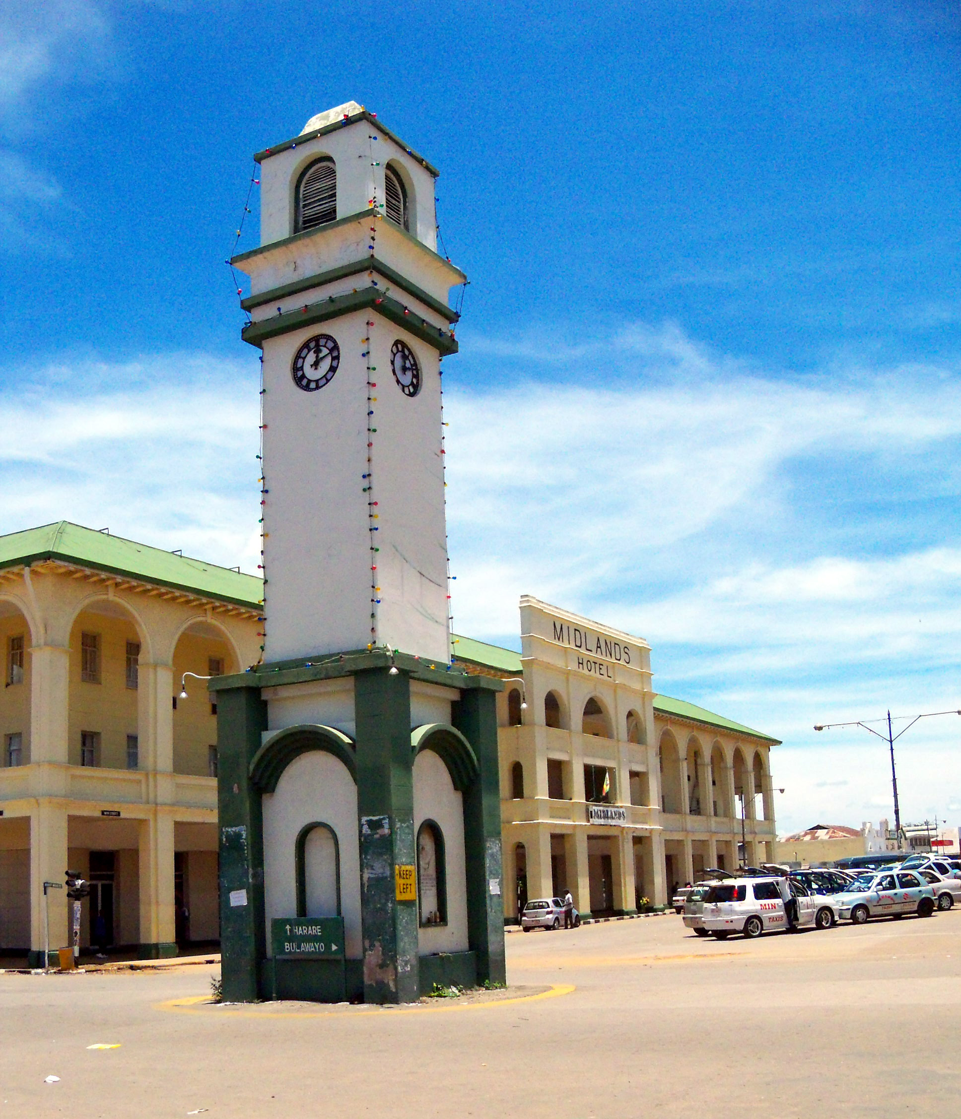 The Boggie Clock in Gweru, Zimbabwe. In the background is the Midlands Hotel. Photo taken on 2 January 2012